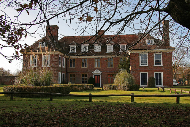 Moyles Court A Grade II* Listed late C17 country house, now a school. During the Second World War the house was requisitioned, and in 1940 fulfilled a new role as the station Headquarters for RAF Ibsley. Once the home of Lady Alice Lisle who was executed at Winchester in 1685 for harbouring two fugitives of Monmouth's army, after the Battle of Sedgemoor. The original sentence handed down by the notorious Judge Jeffreys was that of burning, but beheading was eventually substituted. She is buried at the nearby churchyard at Ellingham.